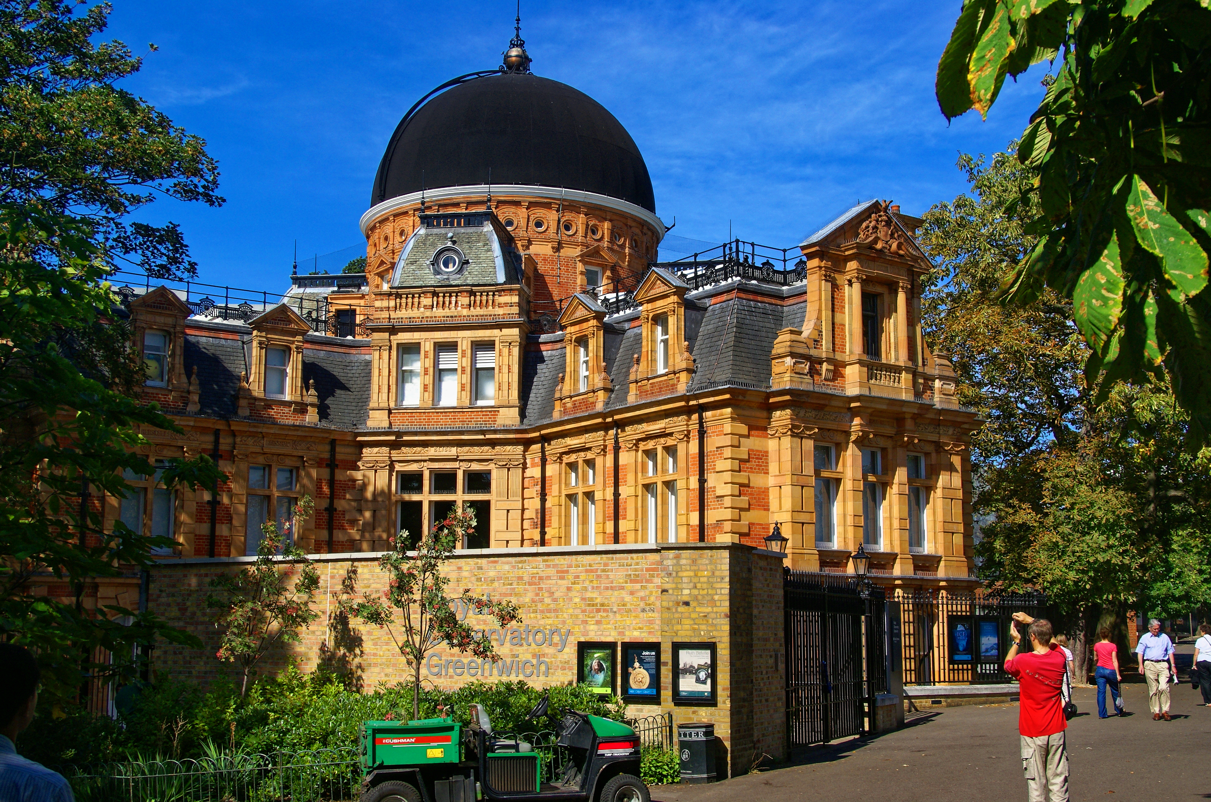 Greenwich Park - Blackheath Avenue - View NW on Royal Observatory Greenwich